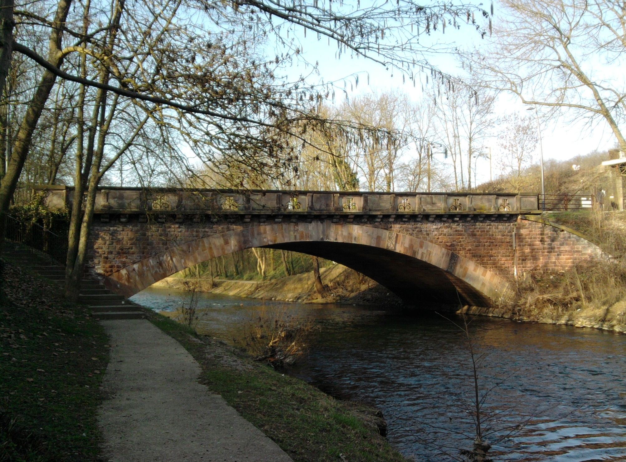 Sainte-Barbe bridge in Metz, Moselle (France).